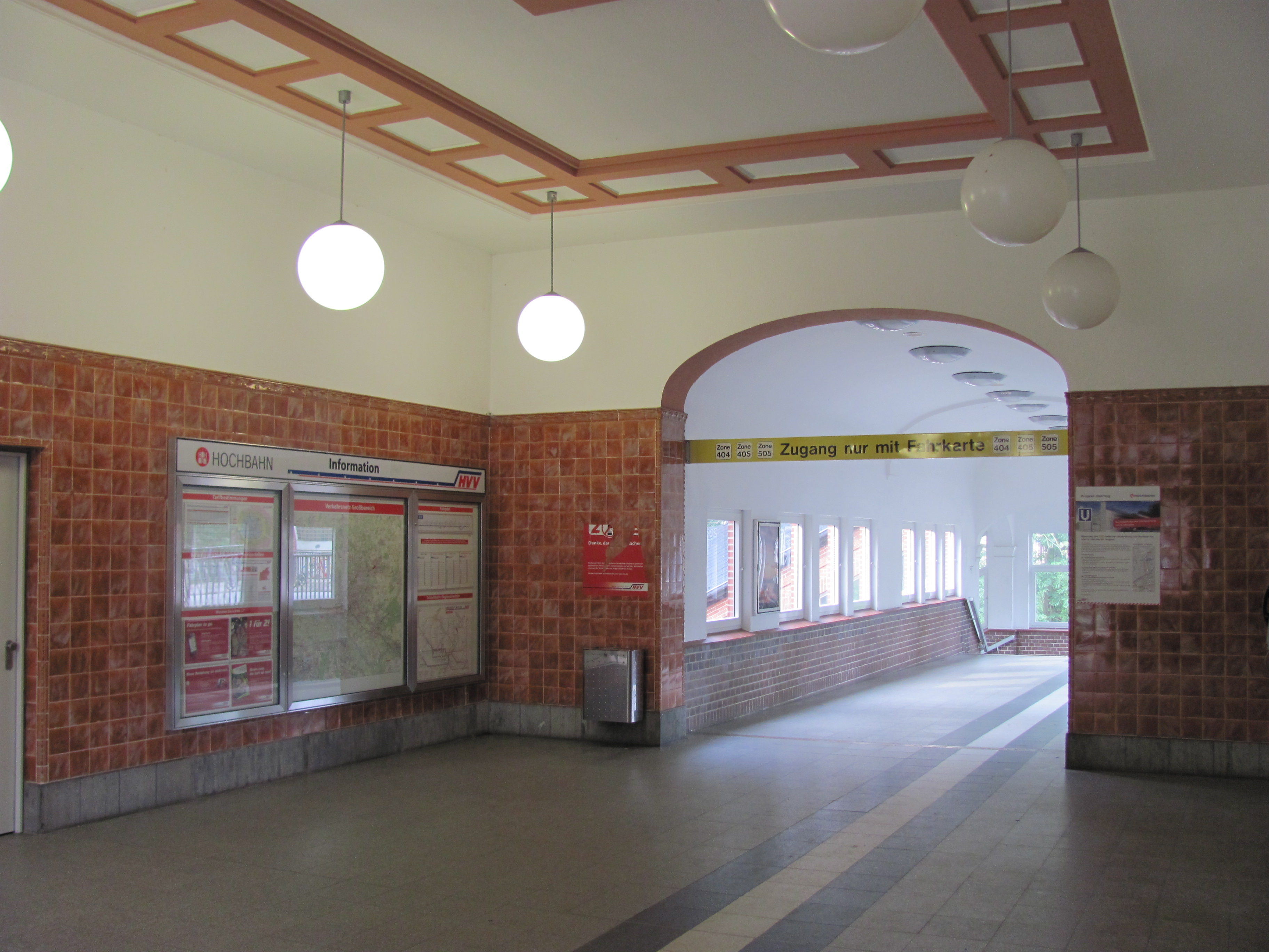 U-Bahn station Ahrensburg West